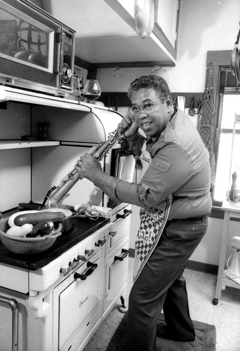 Jazz Radio host Bob Parlocha at his Oakland home, 9/16/86. Photo by Brian McMillen /